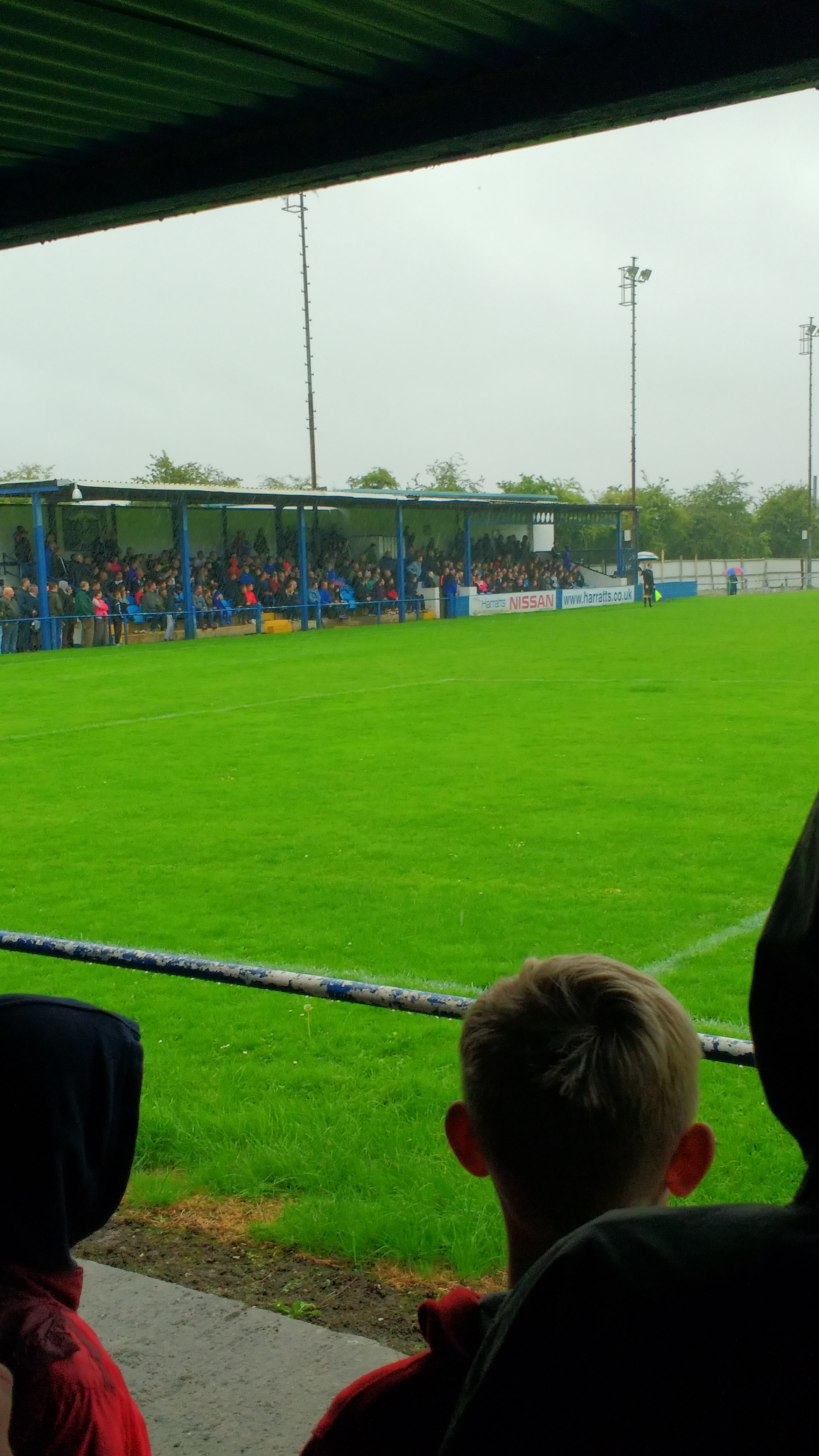 Main stand at Pontefract Collieries FC